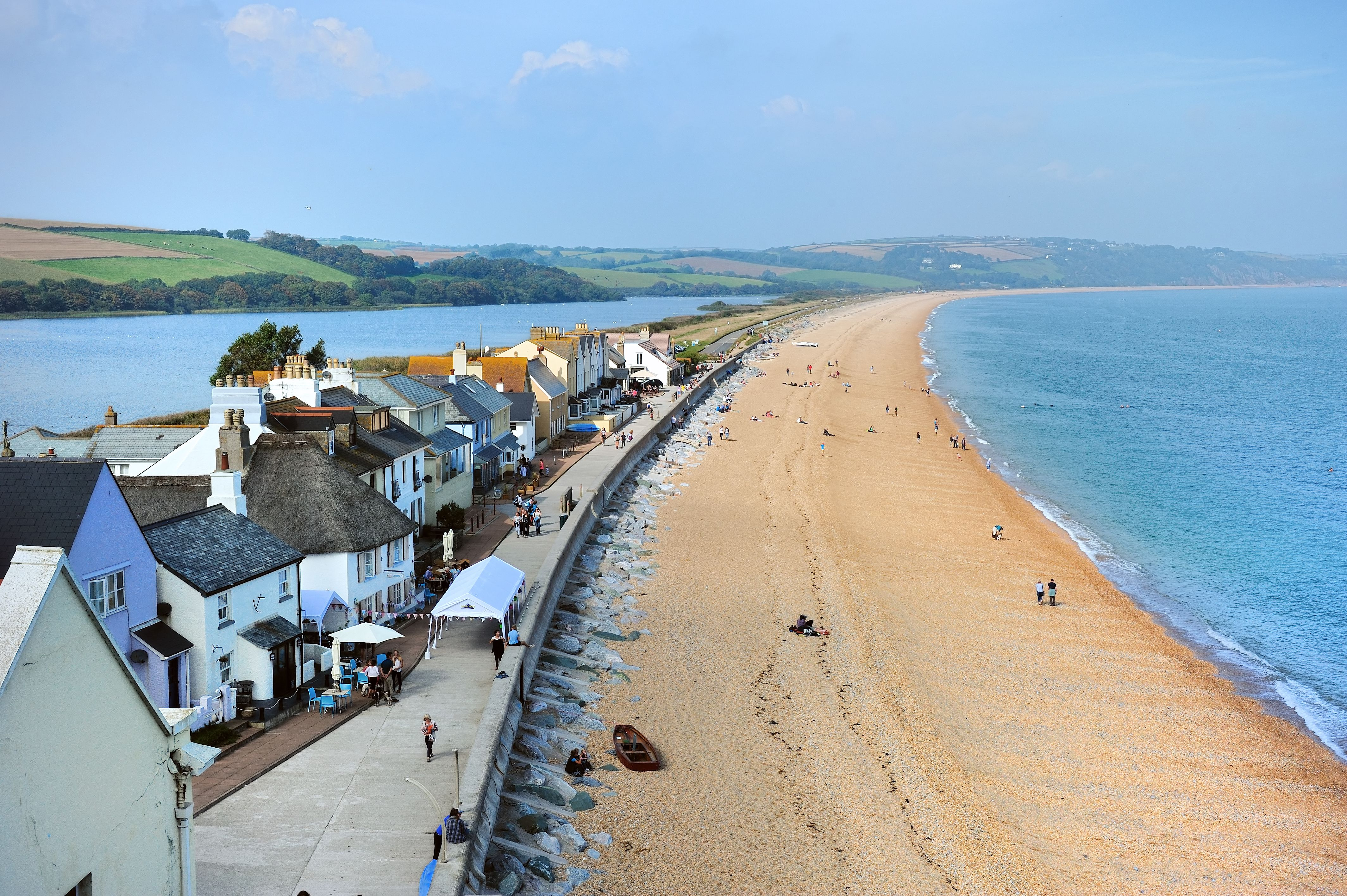 Torcross in the South Hams of Devon, England. The beach is Slapton Sands, and behind the houses can be seen the freshwater Slapton Ley, a site of special scientific interest.